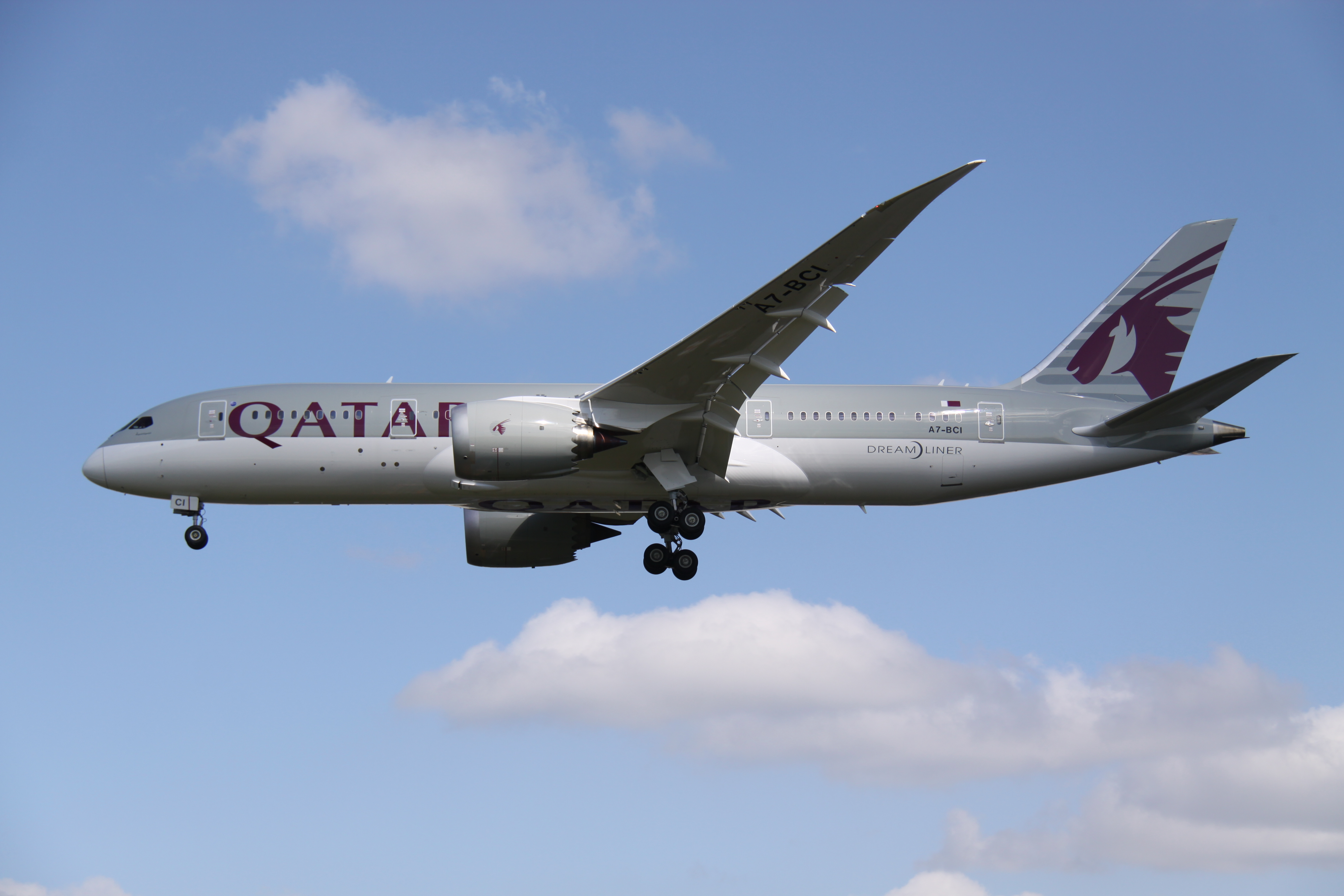 At London Heathrow